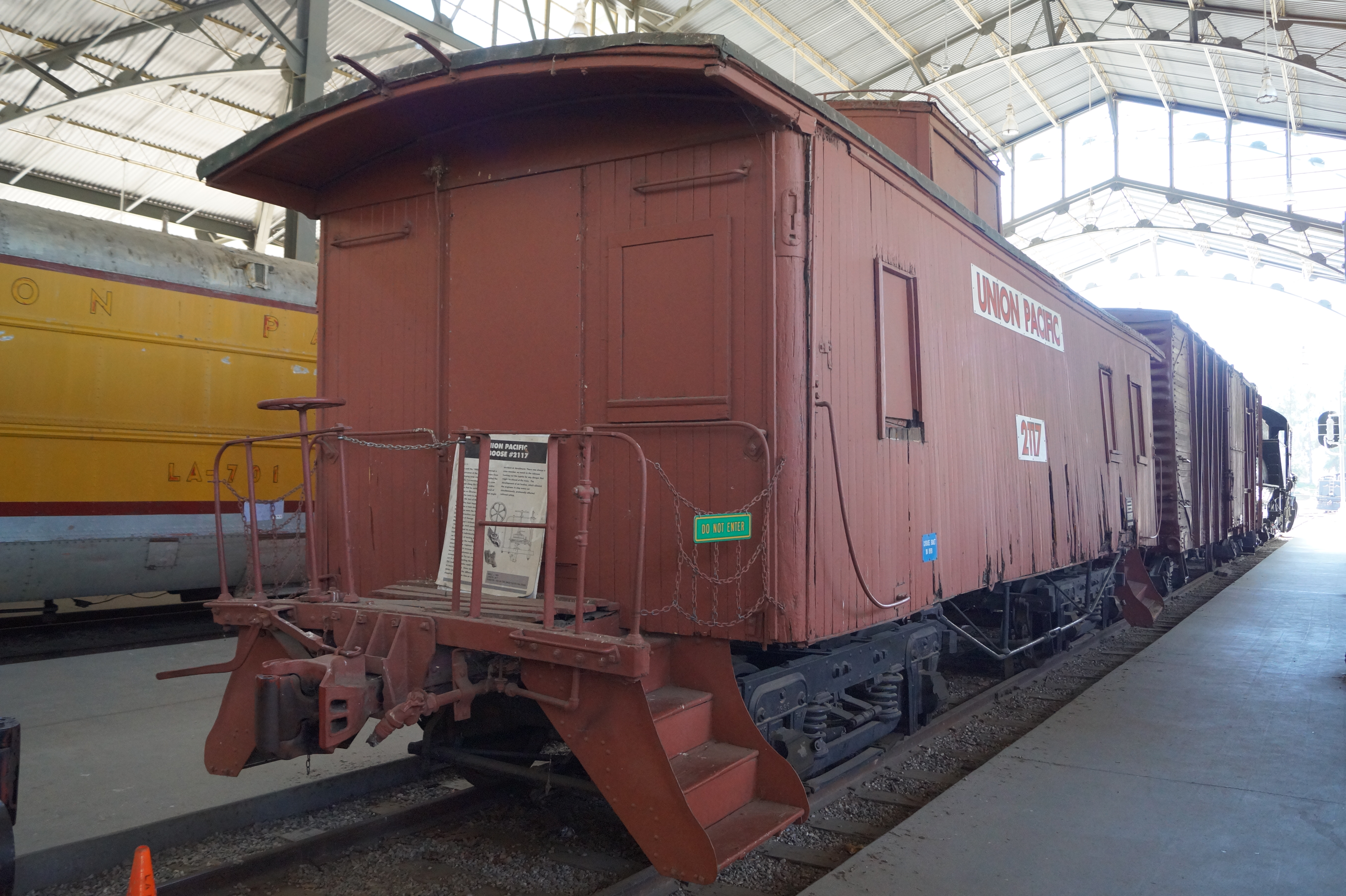 Travel Town Museum is a transport museum dedicated in the northwest corner of Los Angeles, California's Griffith Park. The history of railroad transportation in the western United States from 1880 to the 1930s is the primary focus of the museum's collection, with an emphasis on railroading in Southern California and the Los Angeles area.